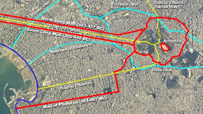 The 5th century BC fortification of Athens (red lines) superimposed on a recent astronaut photo. Also shown the river beds in ancient times (cyan lines), the new river bed (dotted cyan line), the ancient roads coinciding with existing ones (yellow dotted lines) and the Phaleron coastline at ancient times (blue line). Commented version of a public domain NASA file